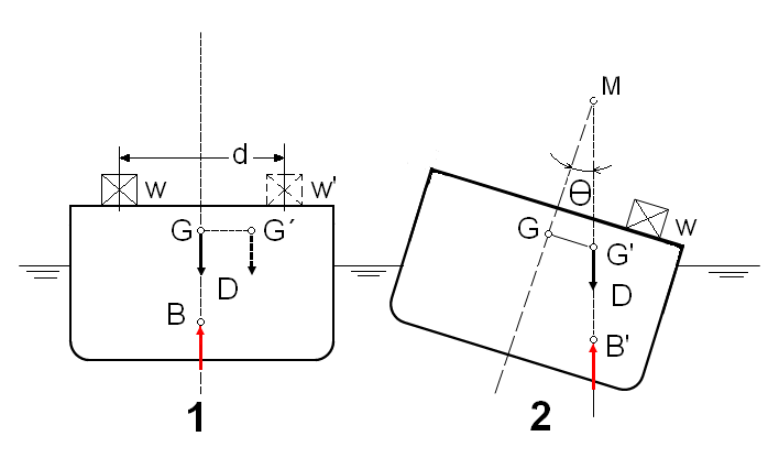 Ship trasversal movements of weights.